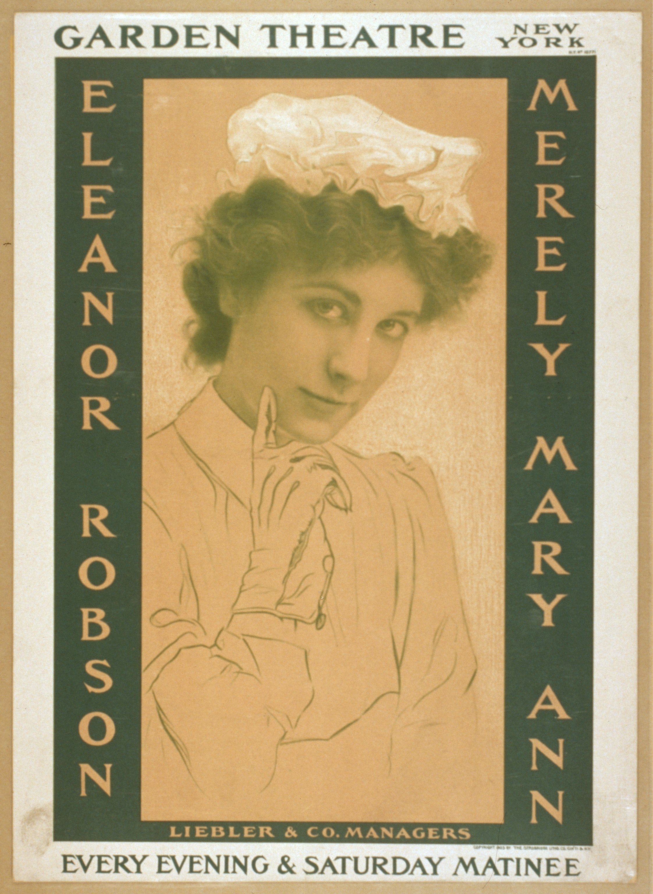 Title: Merely Mary Ann Garden Theatre, New York, every evening & Saturday matinee. Abstract: 1 print : color lithograph ; sheet 46 x 33 cm. (poster format)